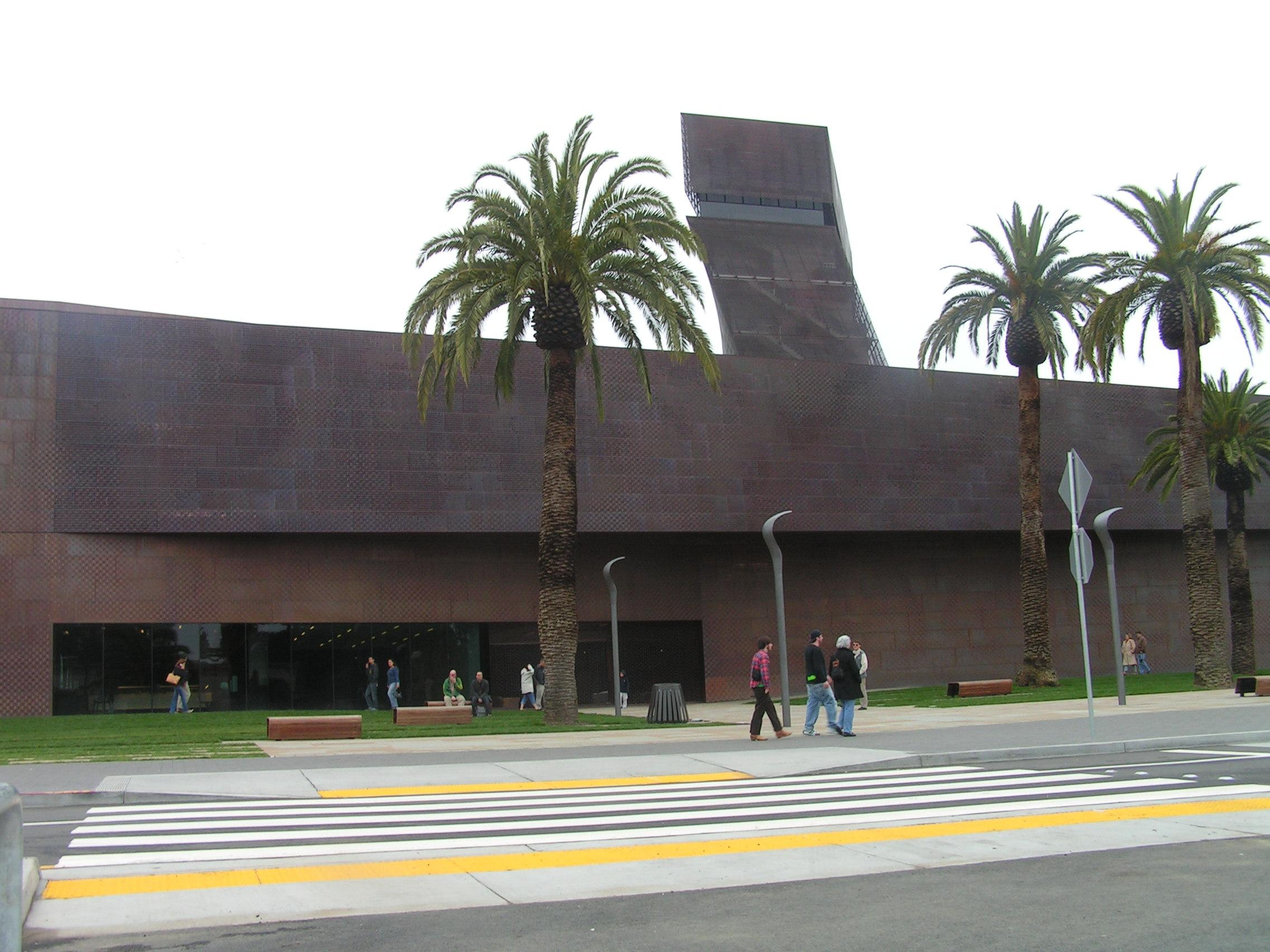 The De Young Museum entrance facade, in Golden Gate Park, San Francisco. With Canary Island date palms (Phoenix canariensis).